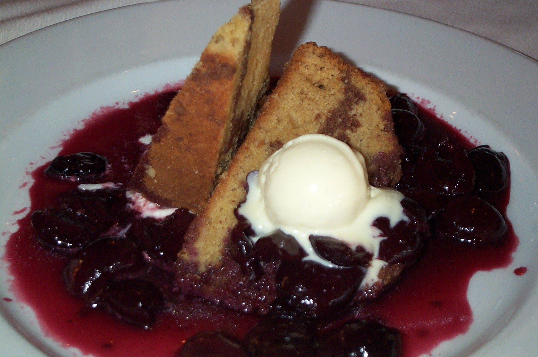 The ice cream was good but the dish overall wasn't